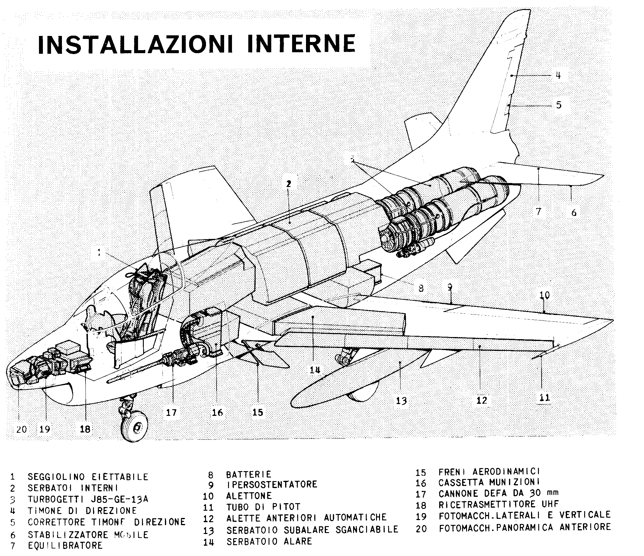 El Fiat G.91, apodado Gina, era un caza monoplaza de reconocimiento y asalto de fabricación italiana. Se intentó que se convirtiera en el equipamiento estándar de las fuerzas aéreas de la OTAN en los años 60. Eventualmente sólo fue adoptado en tres países: la Fuerza Aérea Italiana, la Luftwaffe alemana y la Fuerza Aérea Portuguesa. Aun así, gozó de una larga vida en servicio activo, superando los 35 años. Fue extensamente utilizado por Portugal durante la Guerra colonial portuguesa en África. También fue fabricado bajo licencia en Alemania.